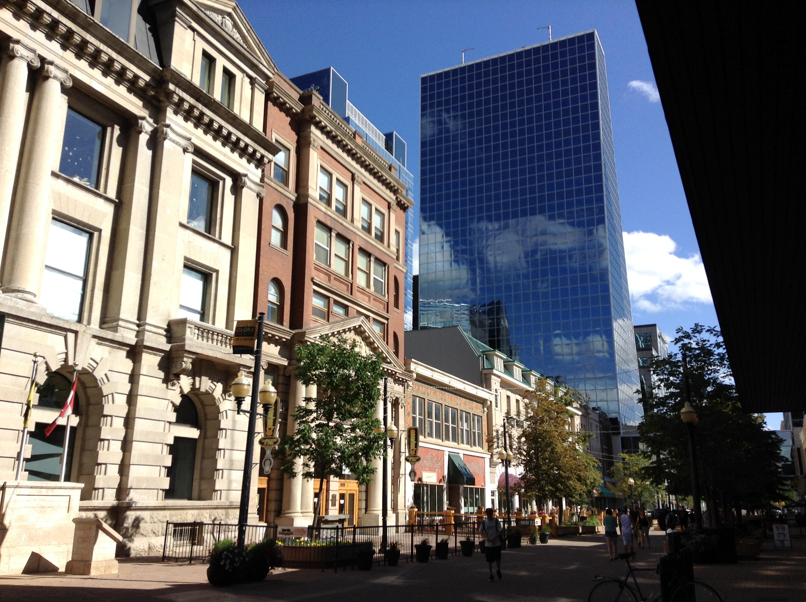 A street in Downtown Regina Saskatchewan that is open only to foot traffic. Picture taken on my iPad in August of 2016.